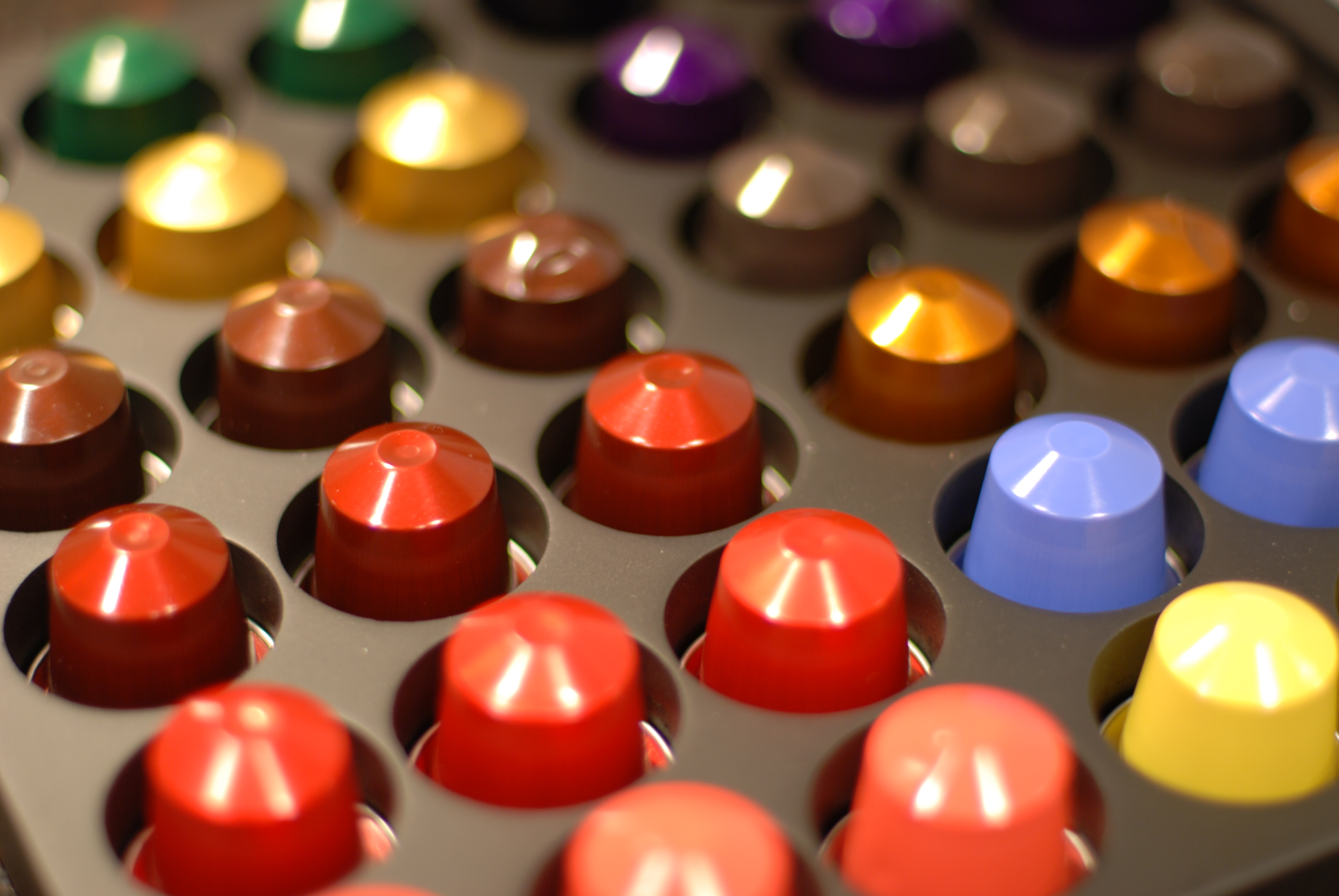 Nespresso, what else ? ;-)